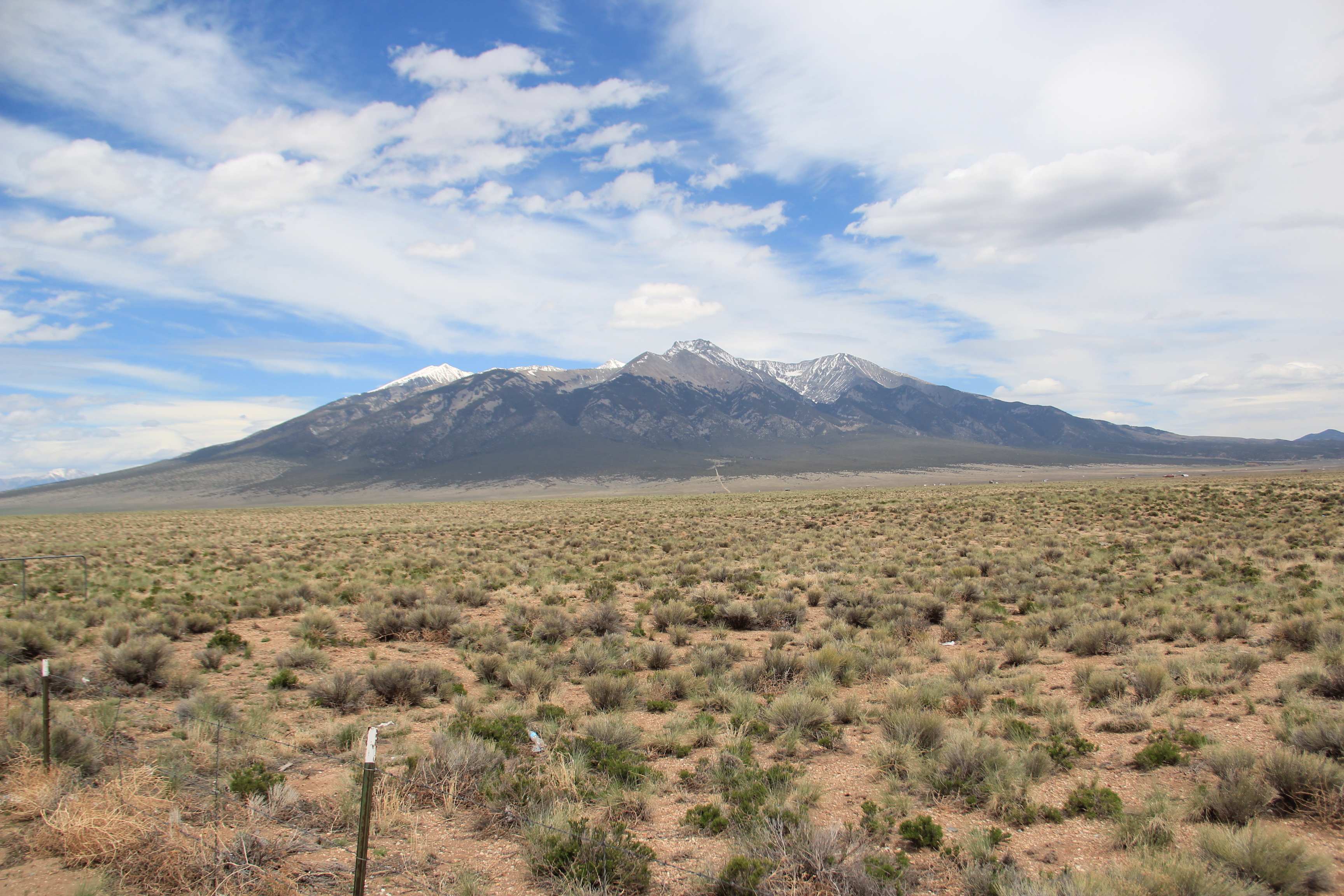 Blanca Peak viewed from Colorado State Highway 150